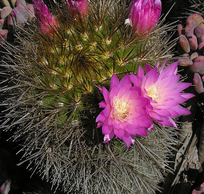 Known as Chilenito, this was indeed taken on coastal Chile, at the port of Los Molles. In context at